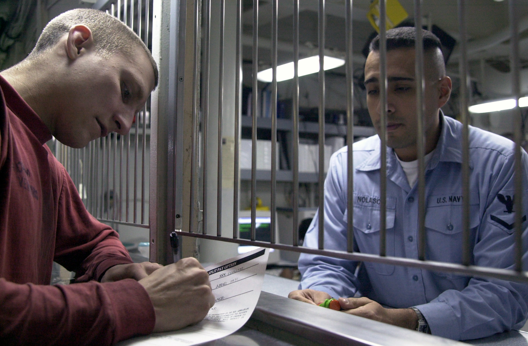 The Arabian Gulf (Mar. 27, 2003) -- Disbursing Clerk 3rd Class Carlos Nolasco from San Antonio, Texas, helps a shipmate with a Split Pay form at the Disbursing Office service window aboard USS Abraham Lincoln (CVN 72). Split Pay places money from a participating Sailor’s account into shipboard Automatic Teller Machines (ATMs), which can then be accessed at any time for cash. Lincoln and Carrier Air Wing Fourteen (CVW-14) are deployed to the Arabian Gulf in support of Operation Iraqi Freedom, the multi-national coalition effort to liberate the Iraqi people, eliminate Iraq’s weapons of mass destruction, and end the regime of Saddam Hussein. U.S. Navy photo by Photographer's Mate Airman Jason Frost. (RELEASED)